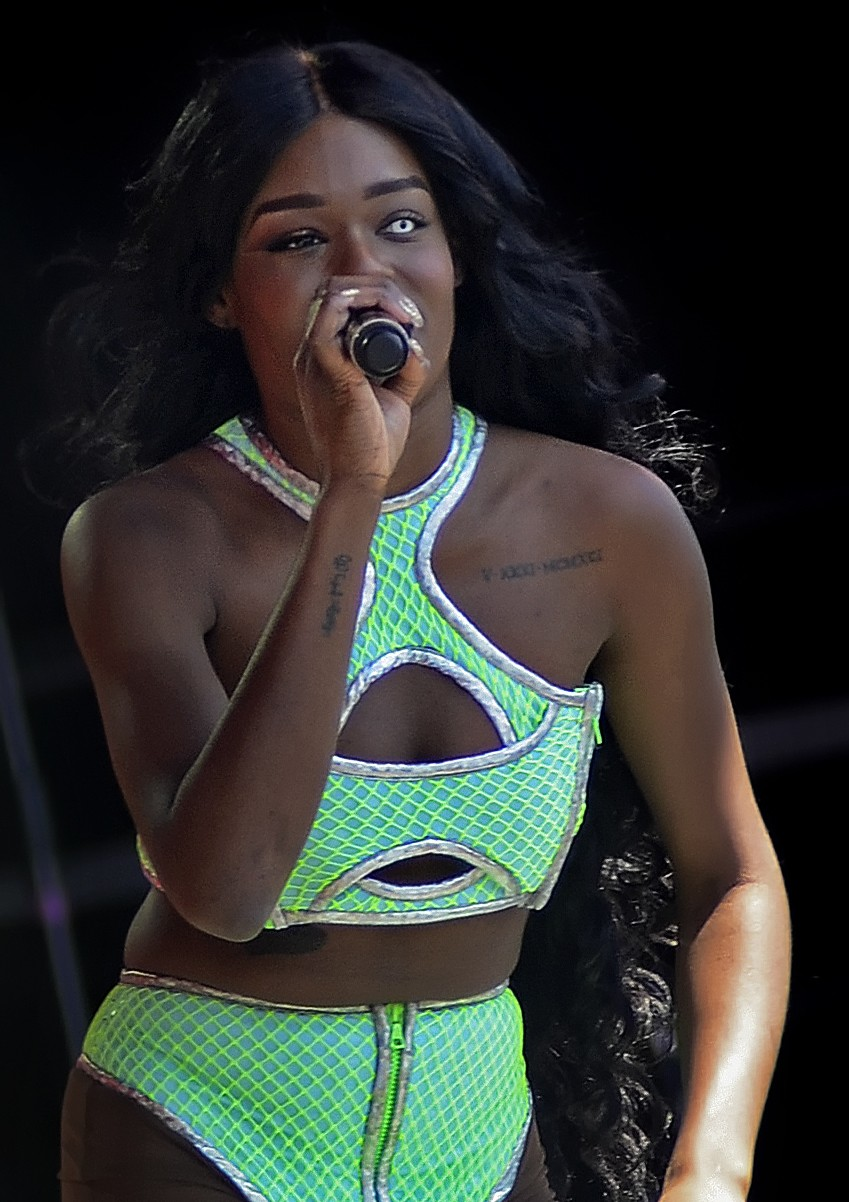 Azealia Banks performing at the 2013 Glastonbury Festival